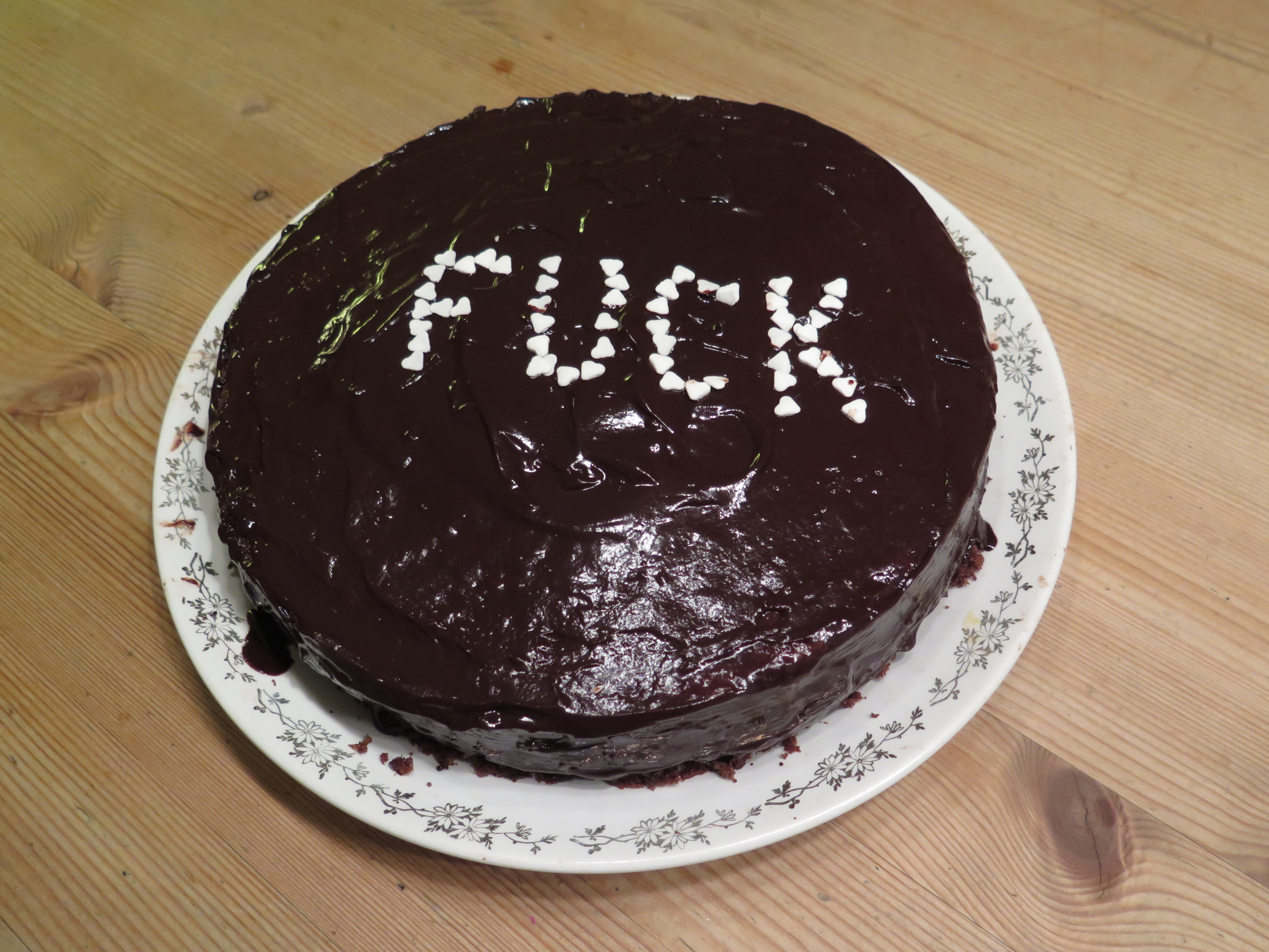 Had to bake a cake for another upcoming event, texting inspired by the US election